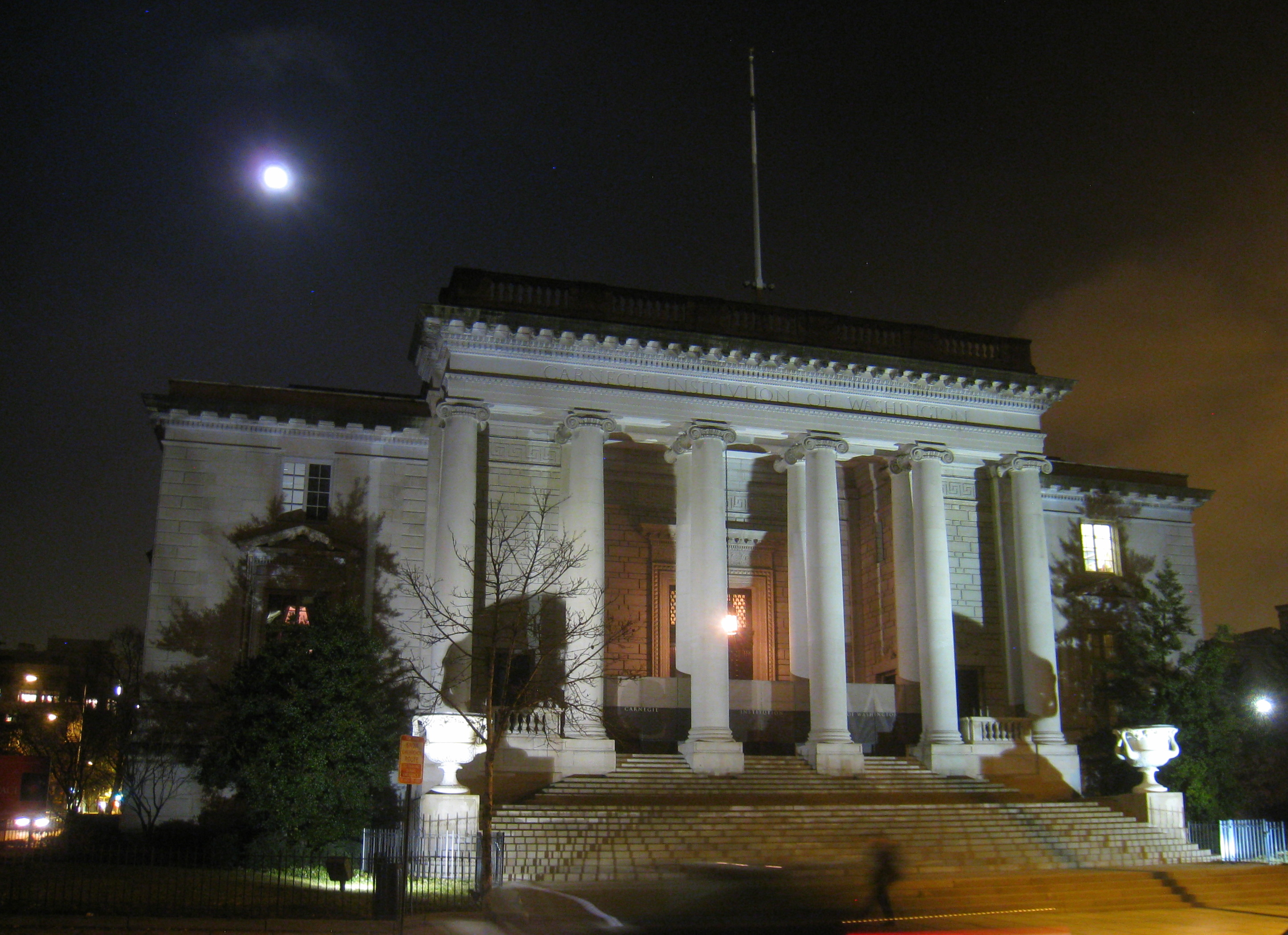 Administration Building, Carnegie Institution of Washington, 1530 P St NW, Washington, DC, USA.